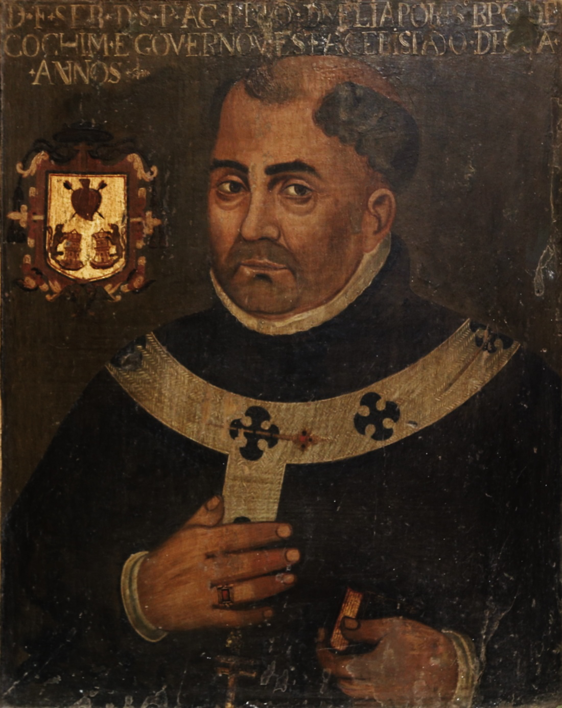 Sebastião de São Pedro, Bishop of Saint Thomas of Mylapore, Bishop of Cochin, and Archbishop of Goa